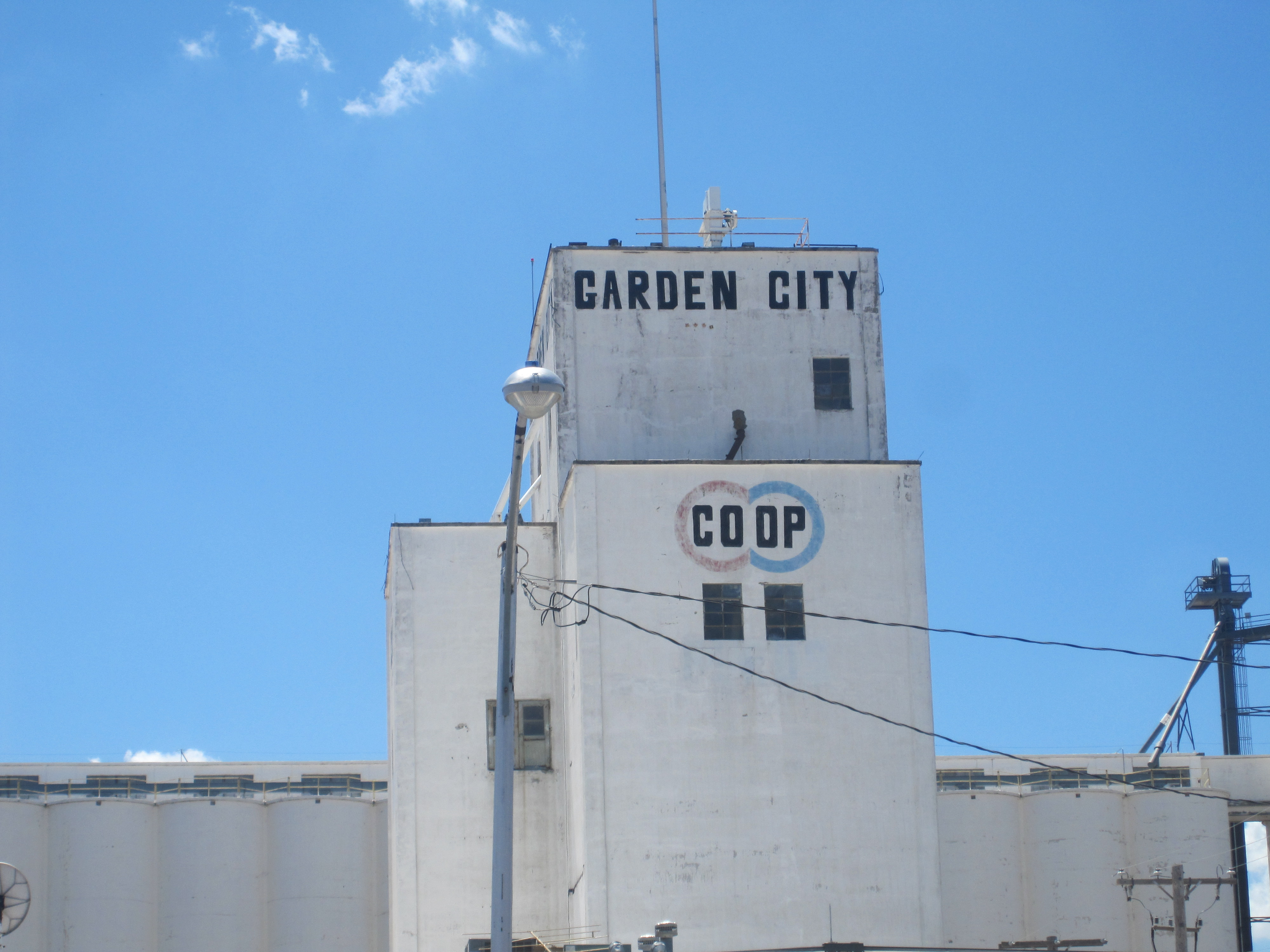 I took photo with Canon camera in Garden City, KS.